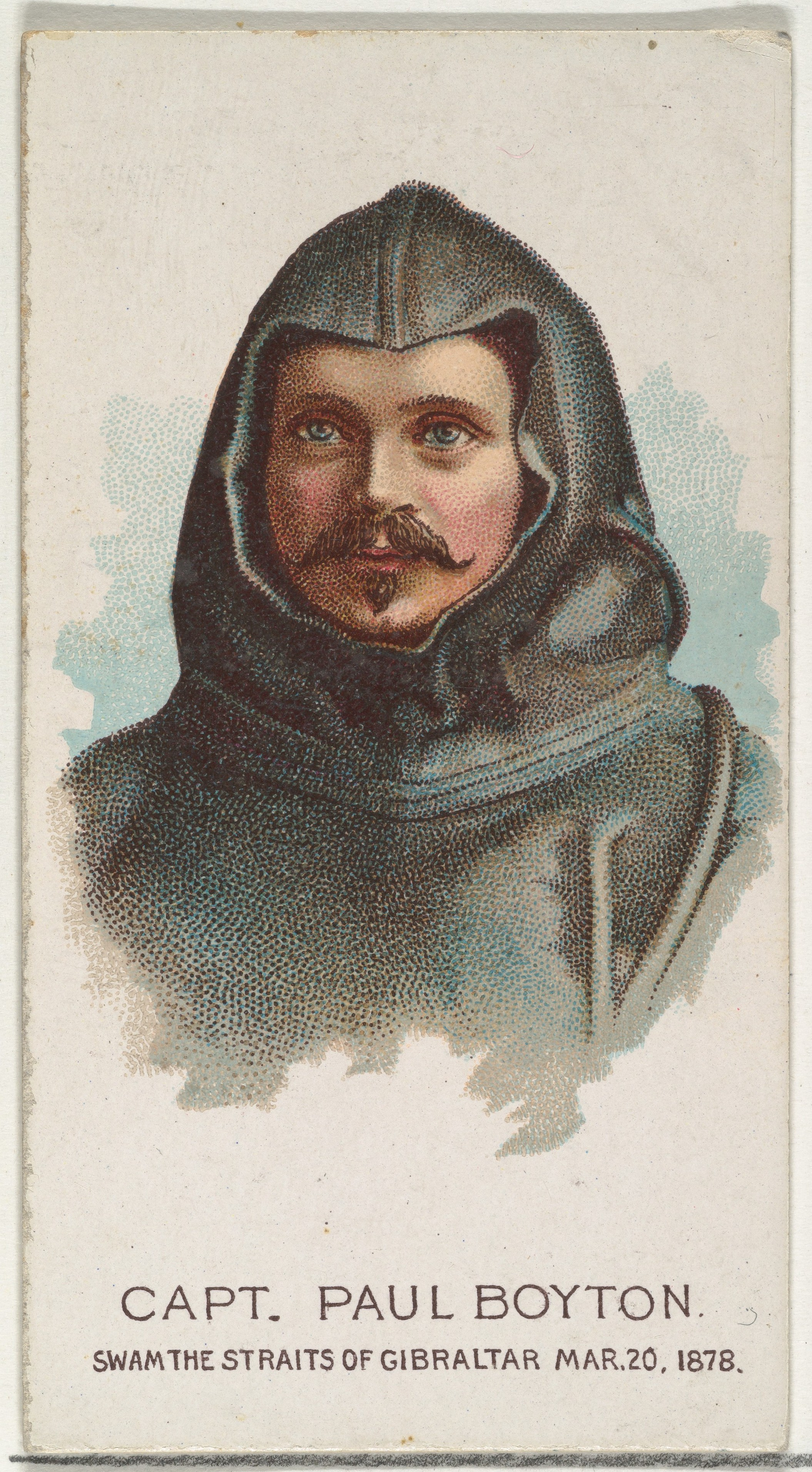 Print; Prints